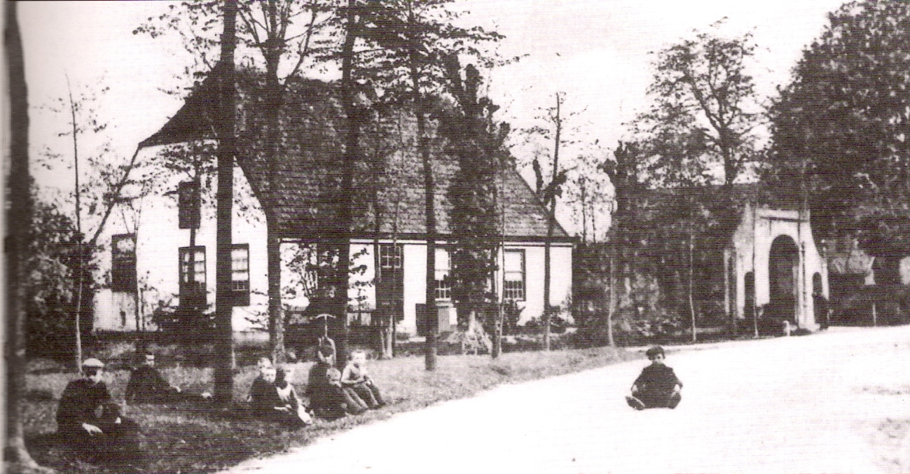 The Ribbius mansion and the Gate to Binderen in the centre of Lieshout